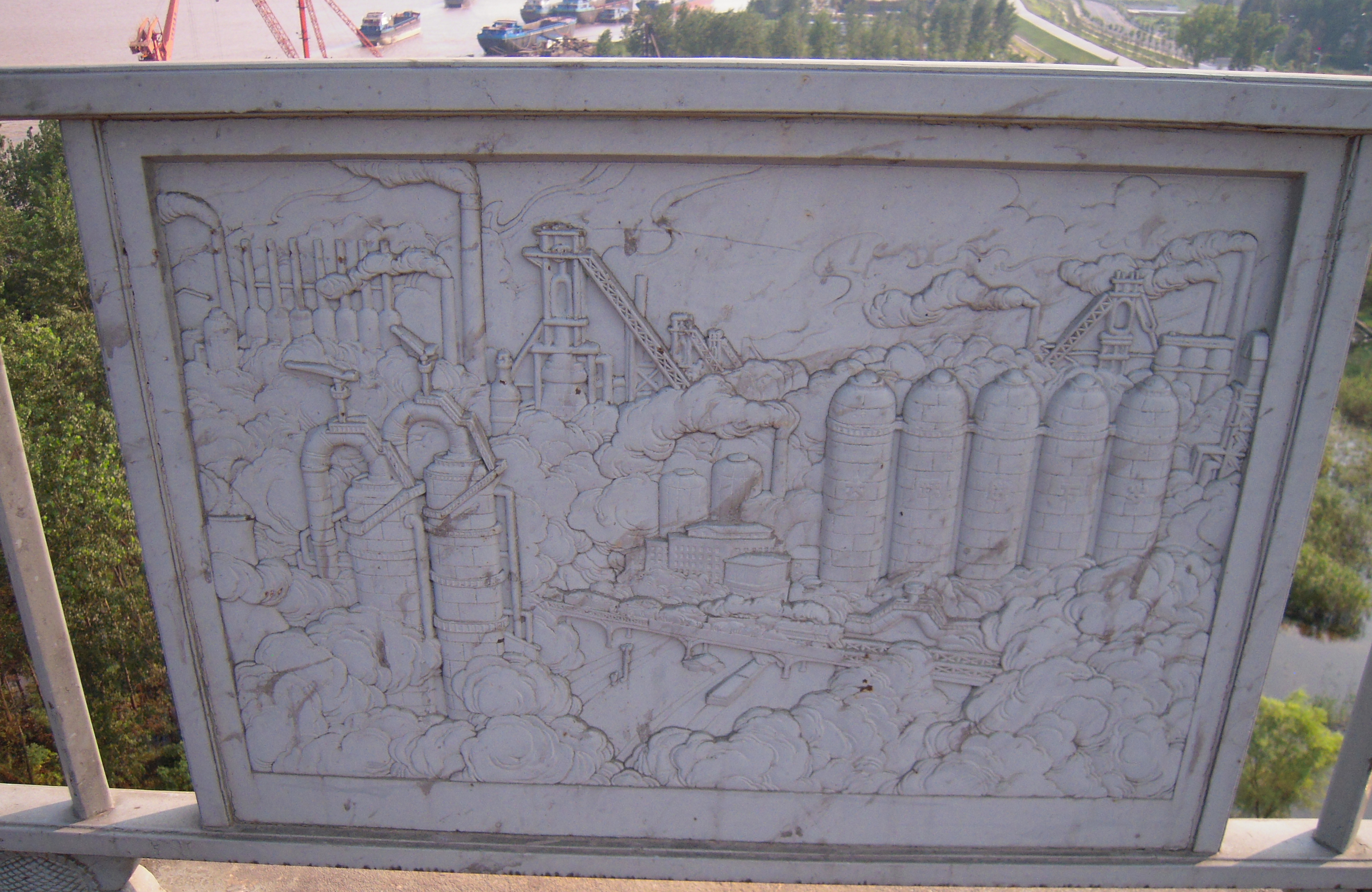 An engraving in Nanjing Yangtze River Bridge